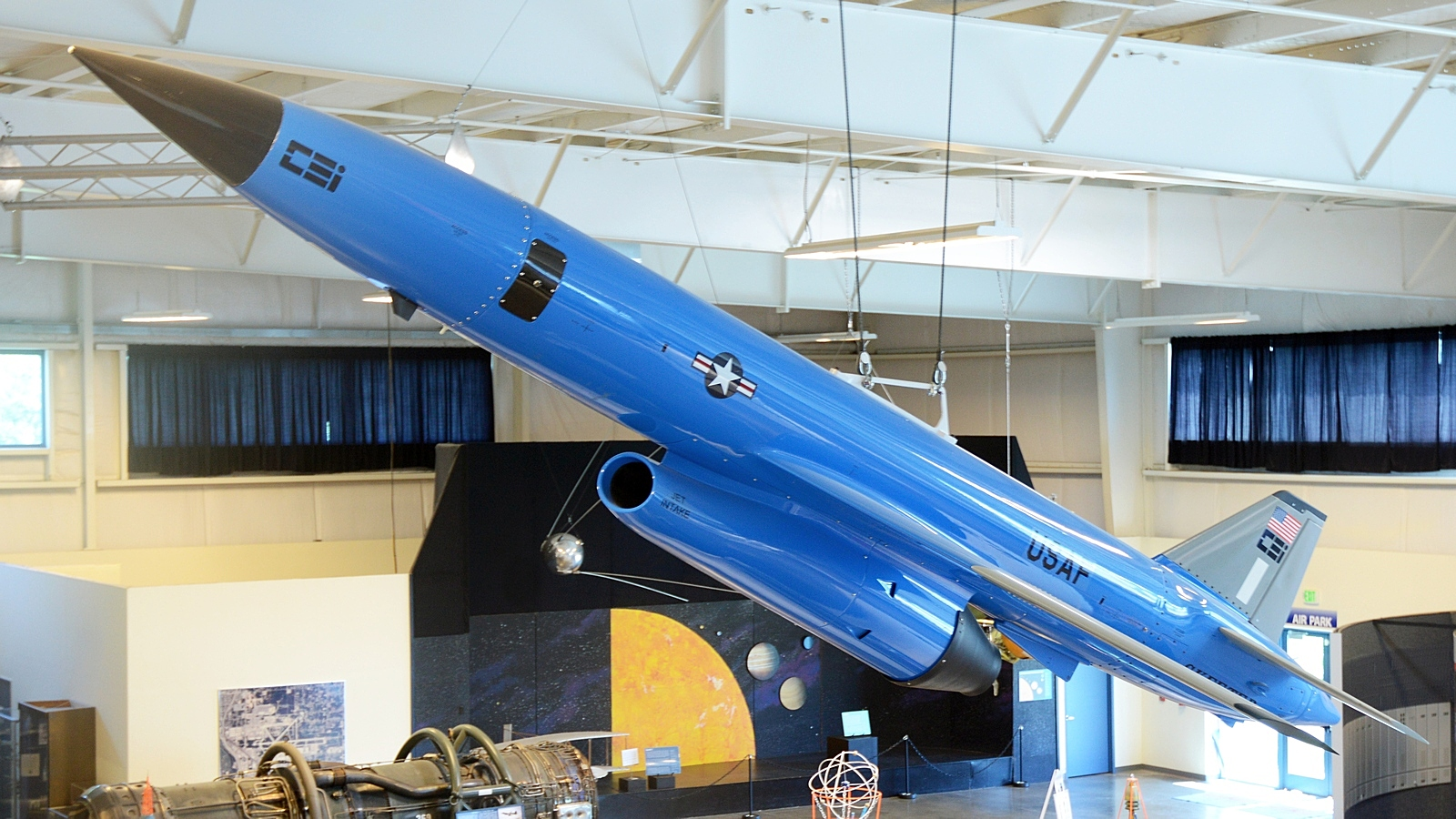 On display at the Aerospace Museum of California, Sacramento McClellan Airport, Sacramento, California, USA